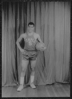 Guy Rodgers photo taken by Carl Van Vechten, photographer. CREATED/PUBLISHED 1958 May 24.